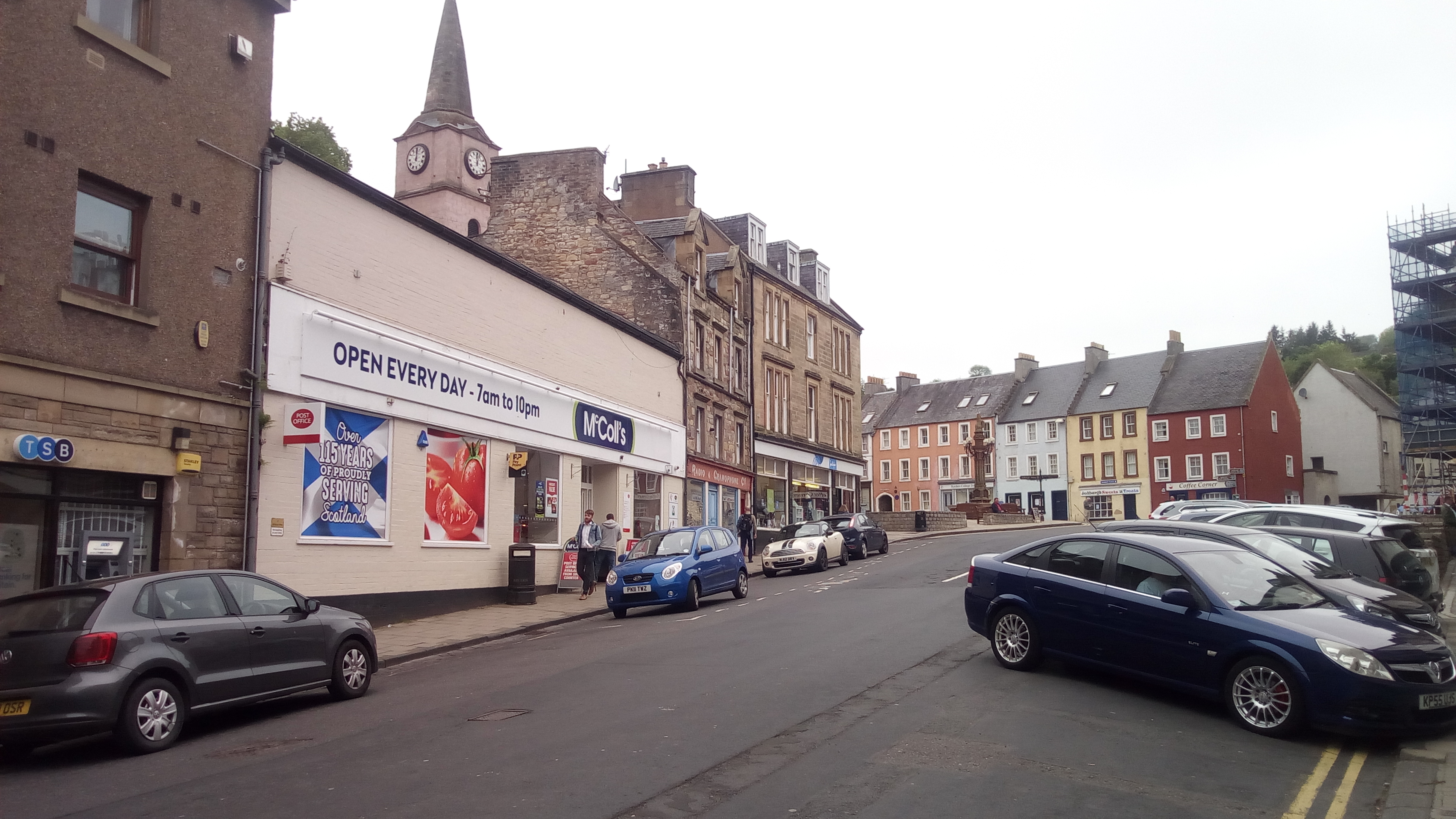 Canongate is one of the main streets in Jedburgh in Scotand